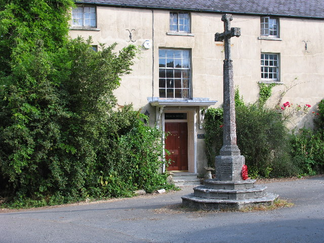 Whitchurch Canonicorum War Memorial. At the bottom of the short lane leading up to the church